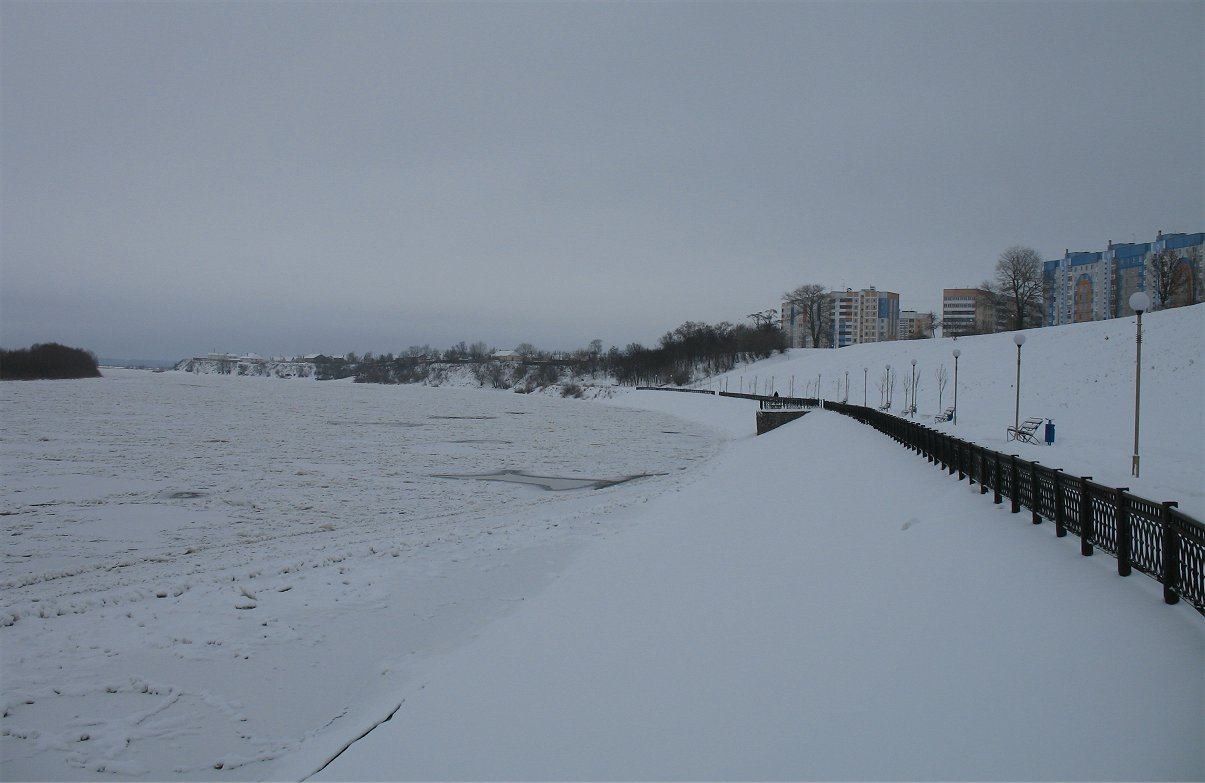 River side view along river Dnepr, of Rechytsa town, located in Gomel oblast, Belarus.